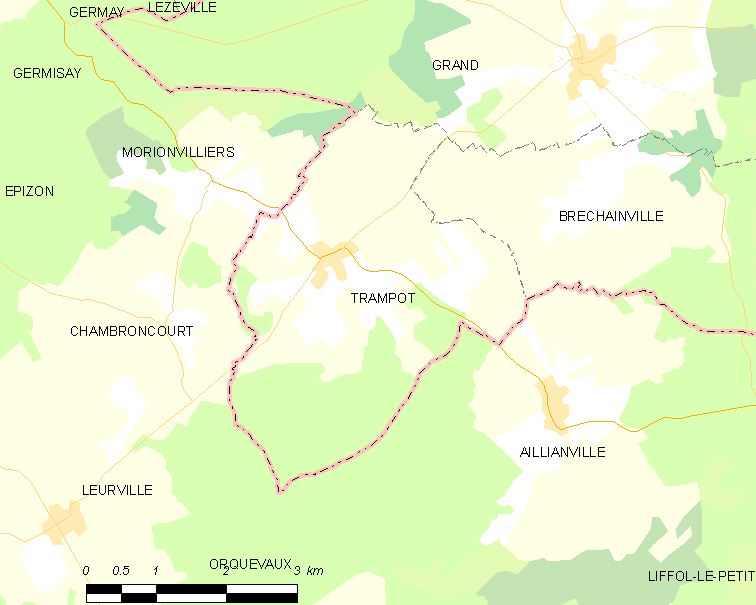 Map of French municipality Trampot